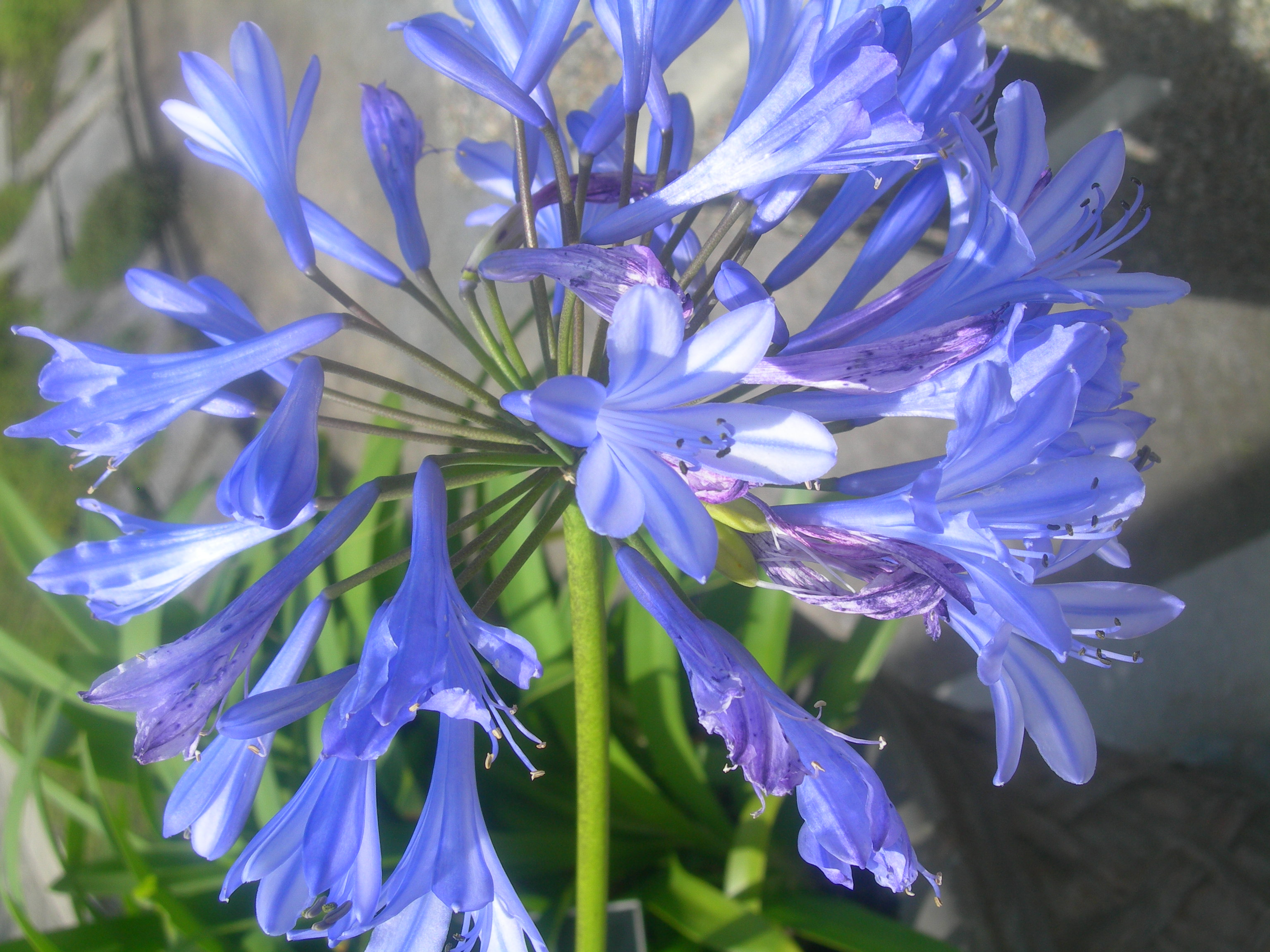 Agapanthus